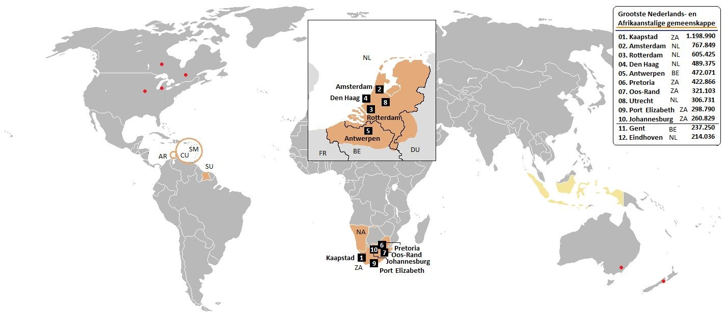 Dutch and Afrikaans speaking cities